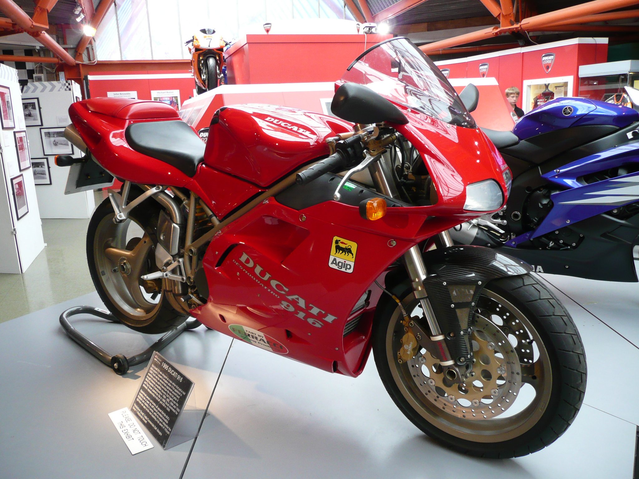 1995 Ducati 916, National Motor Museum in Beaulieu.